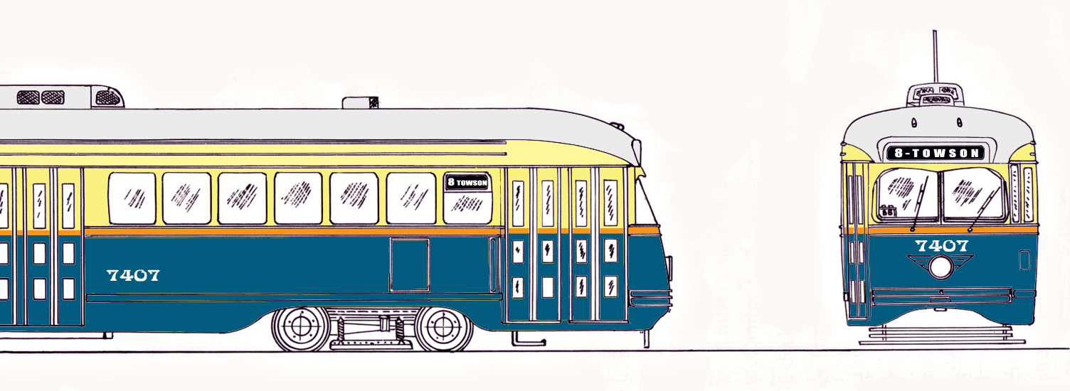 «Baltimore Transit Corp. : Color scheme 1936 as delivered» (original caption)